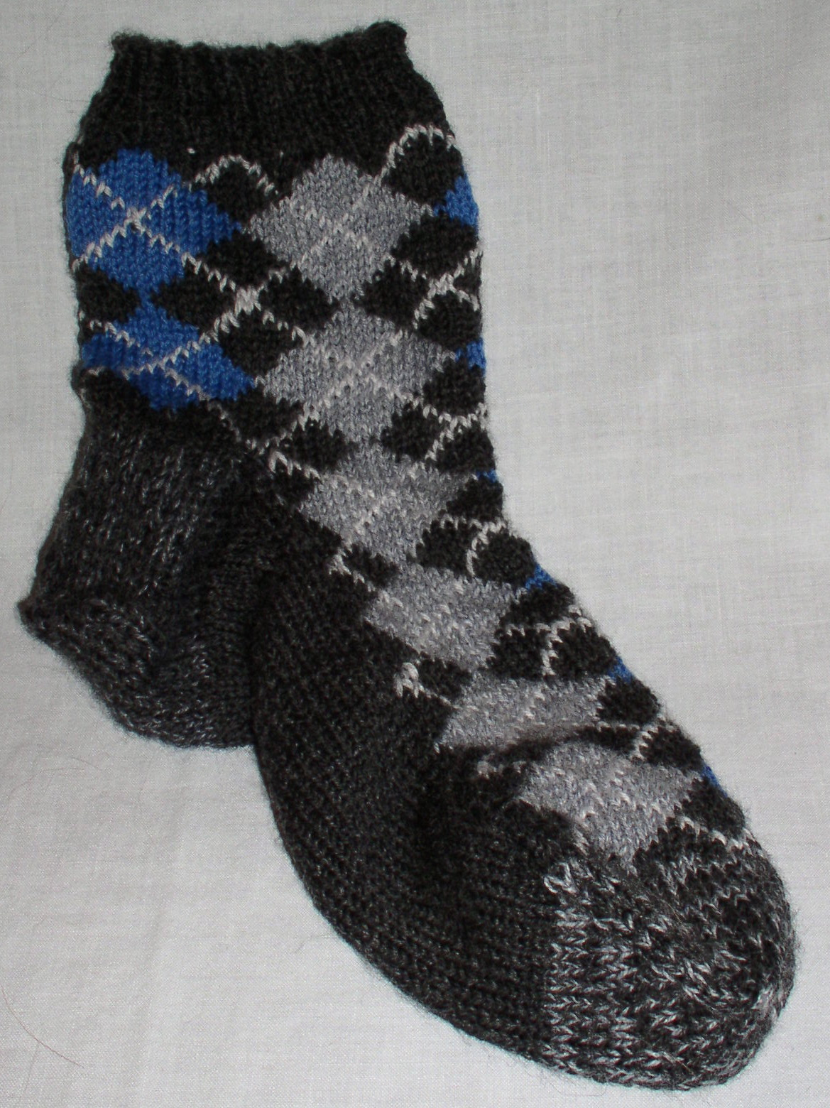 An argyle sock. Taken by me in August 2005. See also Image:Argyle-sock-wrong-side.jpg for a picture of the same sock turned inside-out.